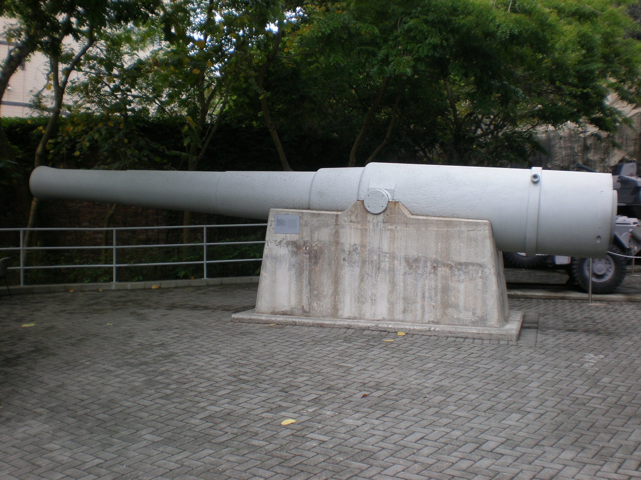 A Mk I 10 inch breech loading gun formerly on the Upper Belcher's Battery in the Western District in the 1880s. On display at the Hong Kong Museum of Coastal Defence.